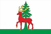 Flag of Elets city (Lipetsk oblast)